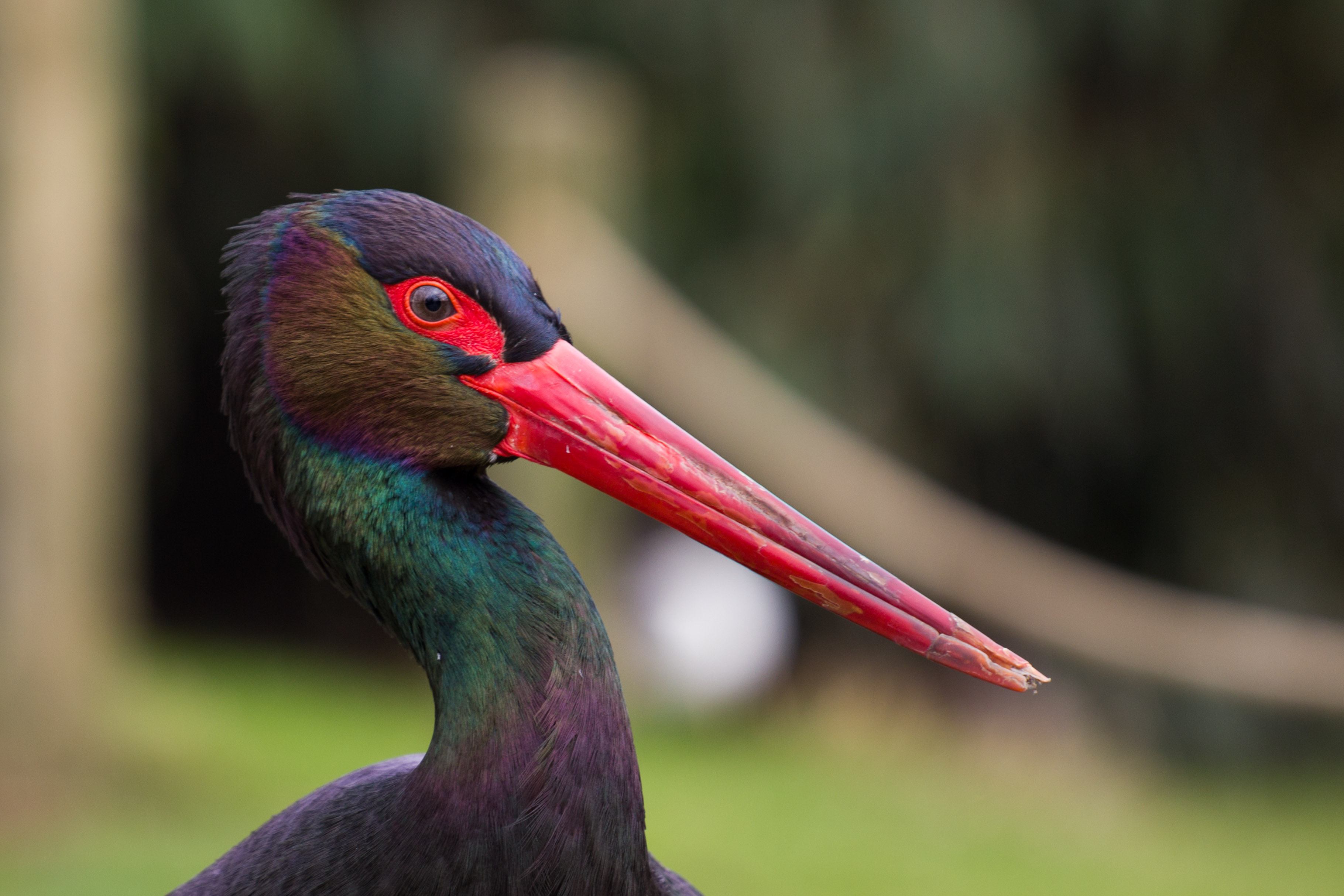 An adult Black Stork at Dierenrijk Europa, Nuenen, Noord-Brabant, Netherlands.